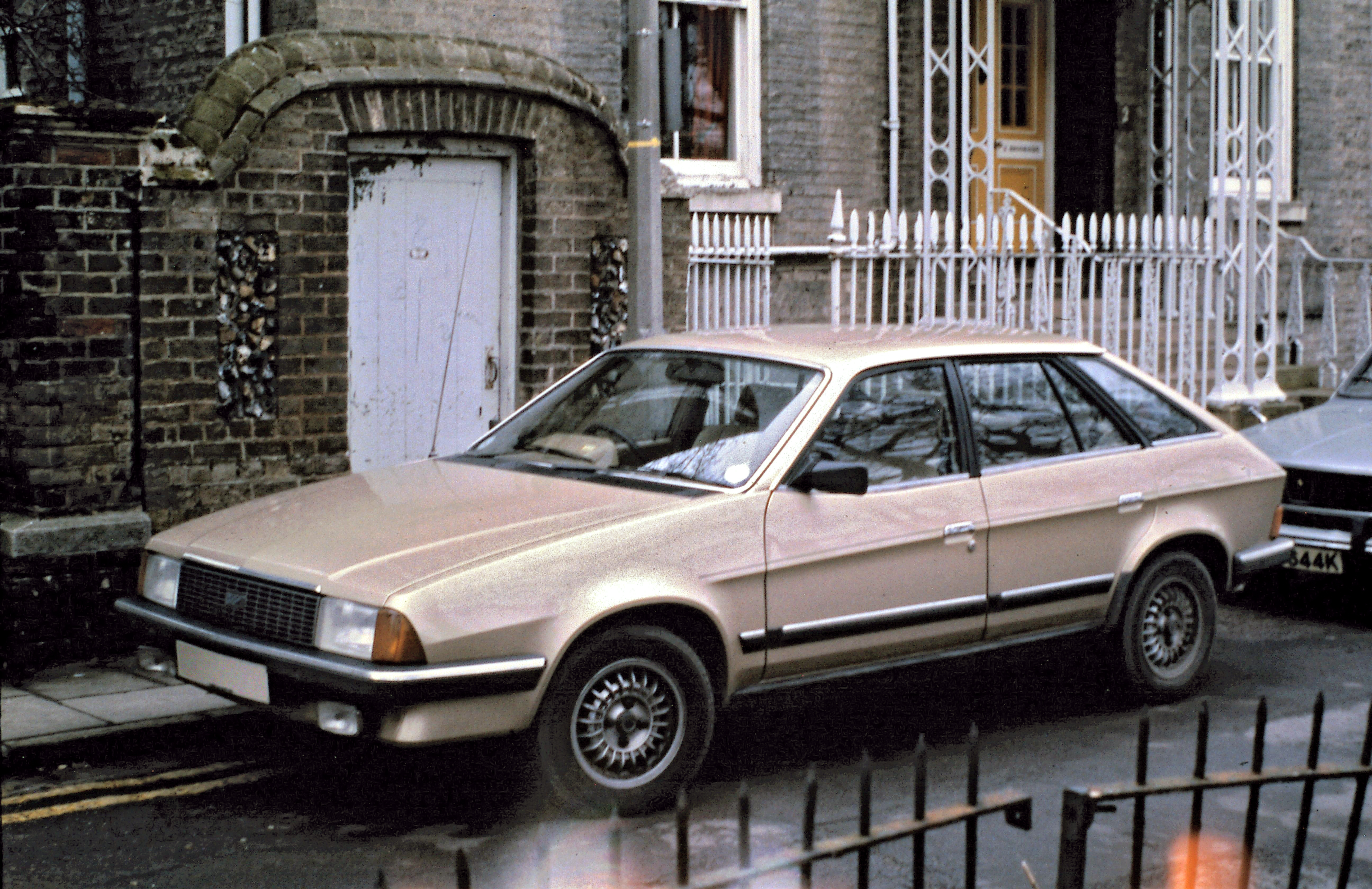 Austin Ambassador on a rainy day in Cambridge